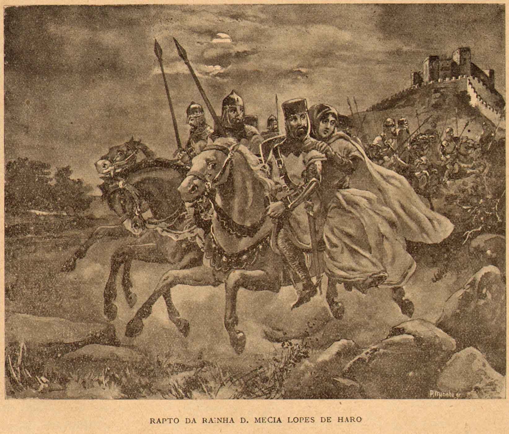 Illustration by Alfredo Roque Gameiro in the book História de Portugal, popular e ilustrada, by Manuel Pinheiro Chagas